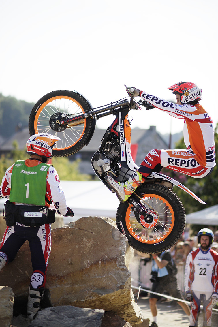 Toni Bou in first section at Trial GP in Belgium 2018